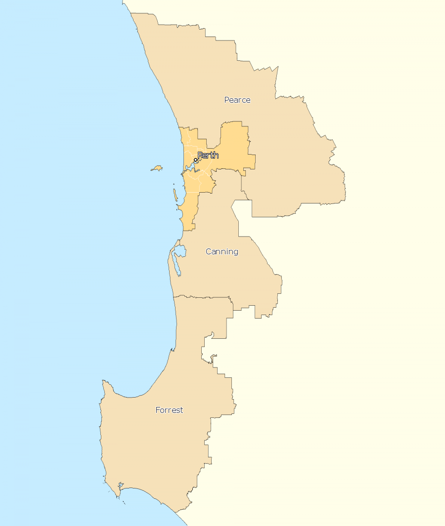 Incorporates or developed using Administrative Boundaries ©PSMA Australia Limited licensed by the Commonwealth of Australia under Creative Commons Attribution 4.0 International licence (CC BY 4.0). Derived from State and Territory Boundaries from the Australian Bureau of Statistics under Creative Commons Attribution 2.5 Australia license (CC BY 2.5 AU)